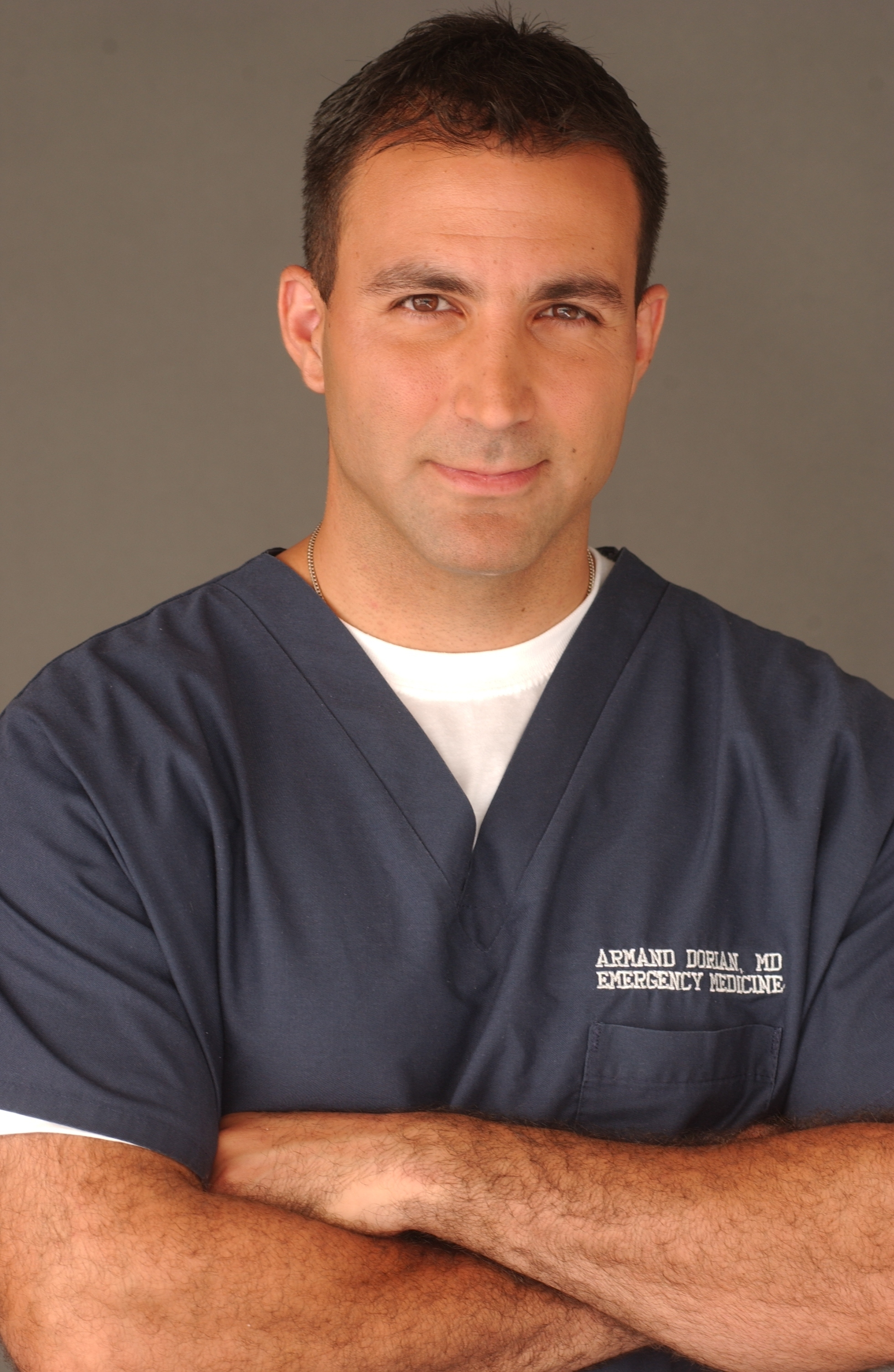 Photo as physician